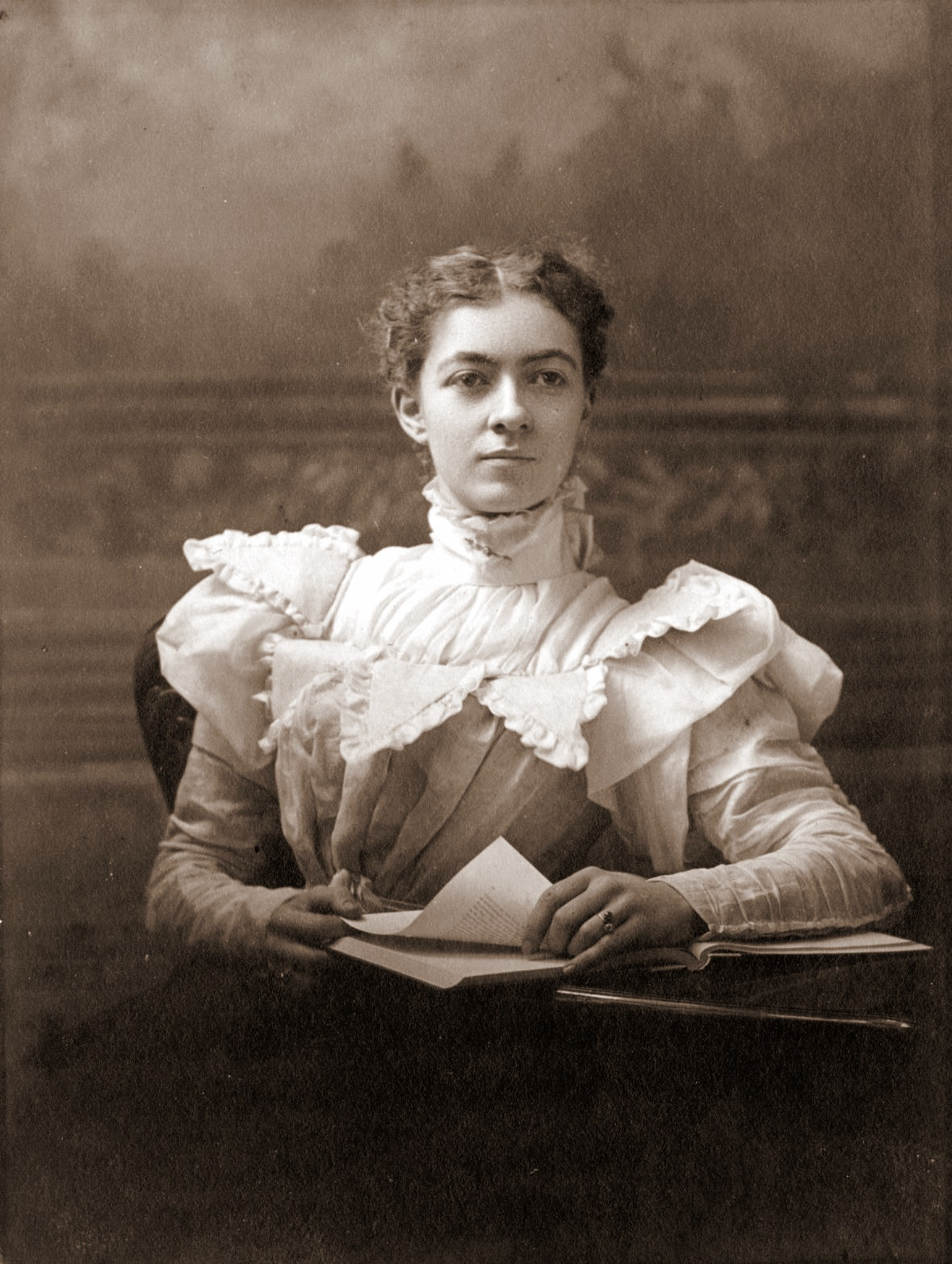 Mary Engle Pennington (1872-1952), Cert. of Prof. 1892 and Ph. D. 1895, portrait as a young girl